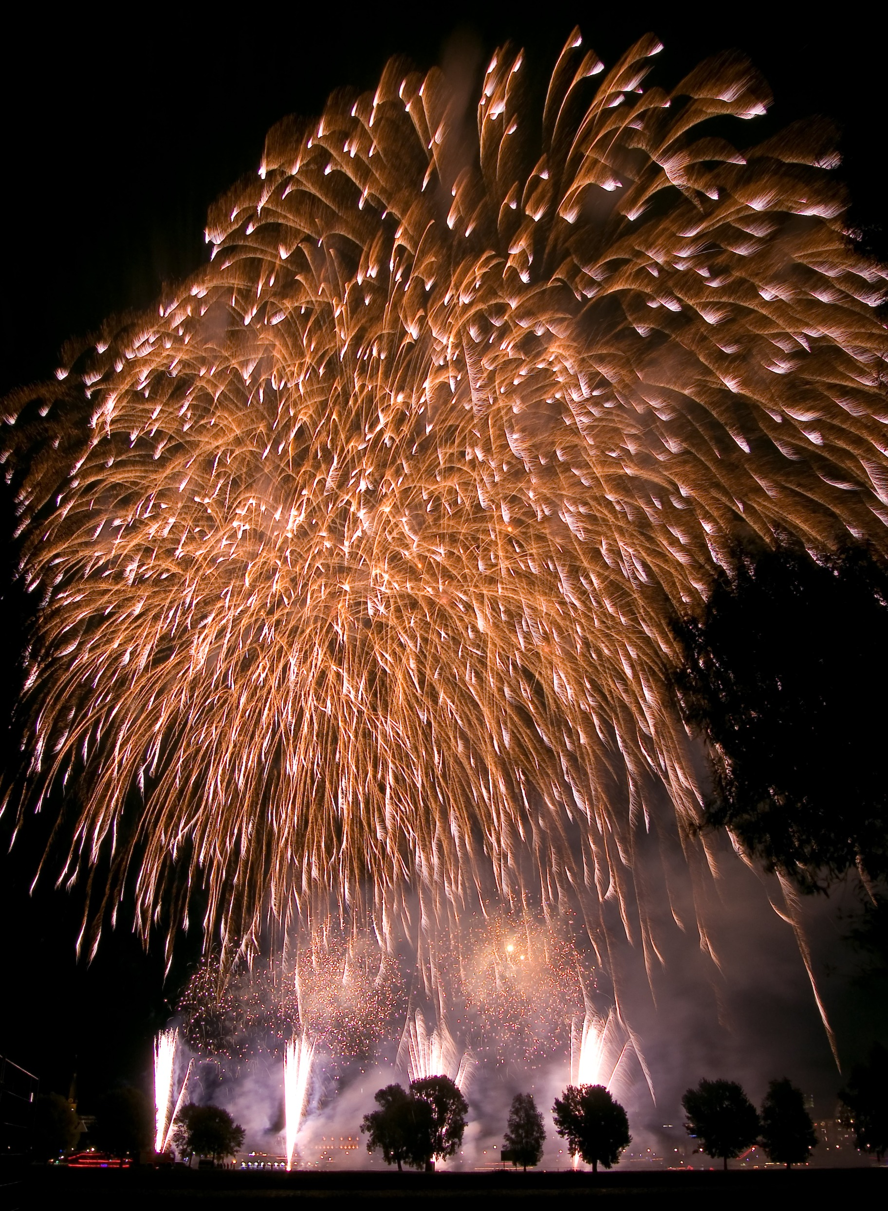 The Japanese Firework in 2007 in Düsseldorf